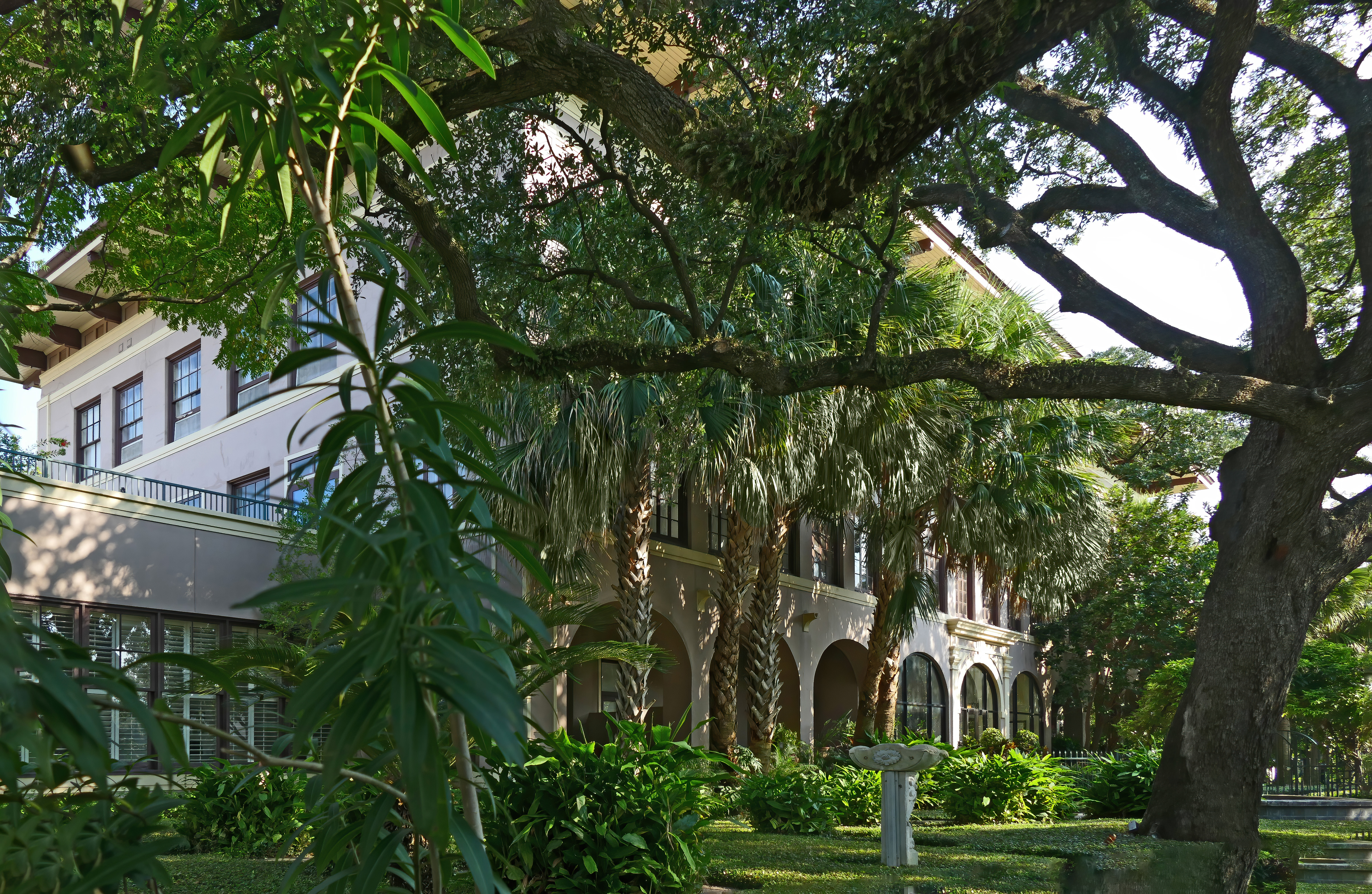 Founded in 1893 in memory of Kezia Payne DePelchin, a remarkable social worker, teacher, and nurse in Houston during the latter half of the 1800s. The orphanage moved to this building upon completion in 1913 and remained here until 1938. Designed by architects Mauran and Russell, the renaissance revival structure features an open arcade on the bottom story and an entryway flanked with Doric pilasters that support a classical cornice